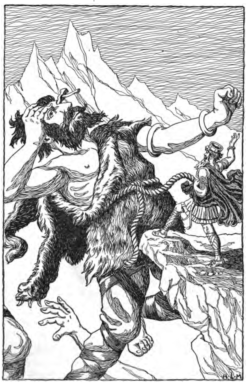 Captioned as "Thor's Battle with the Frost Giants".